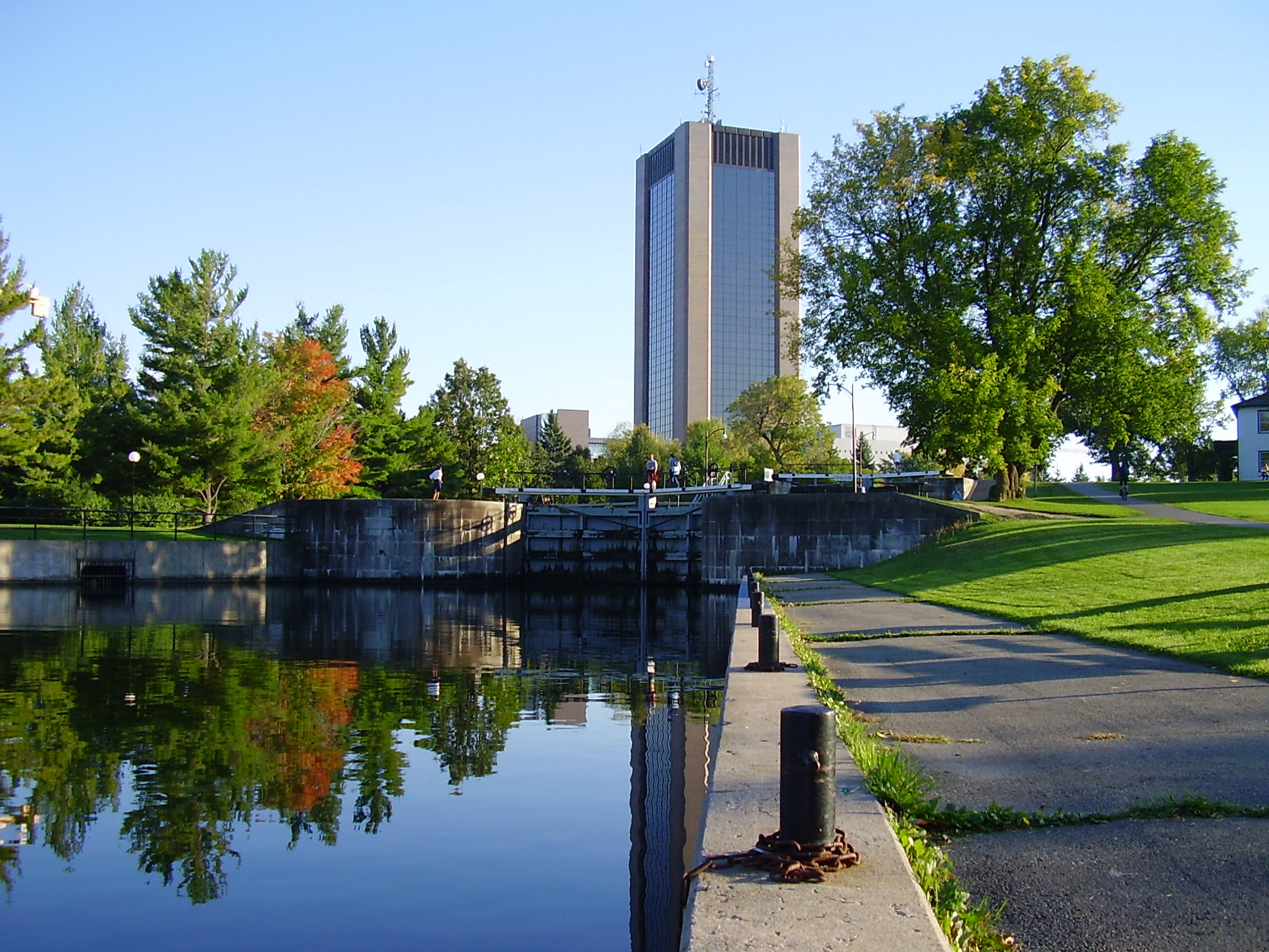 Carleton University